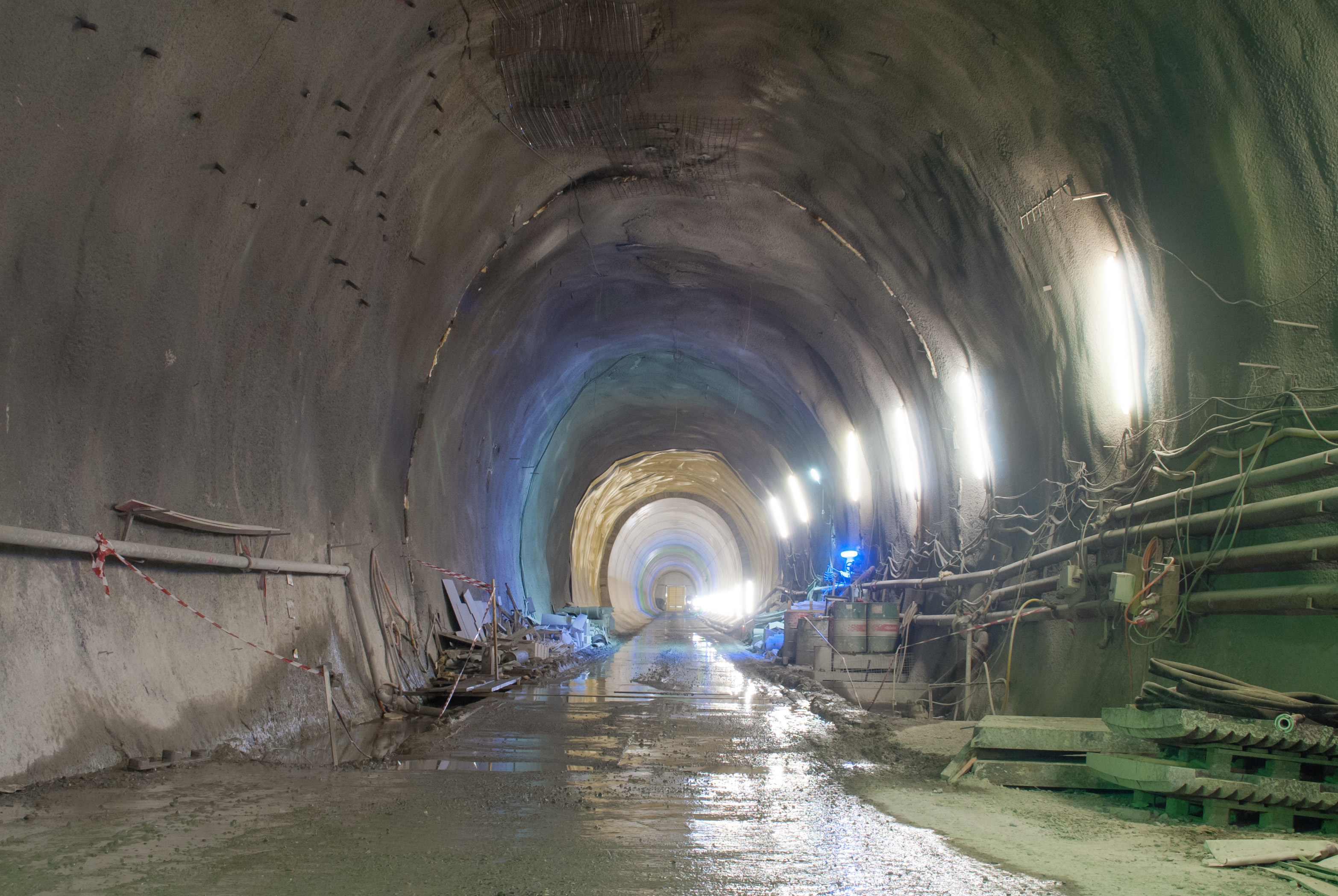 East tube of the Ceneri Base Tunnel (in construction)